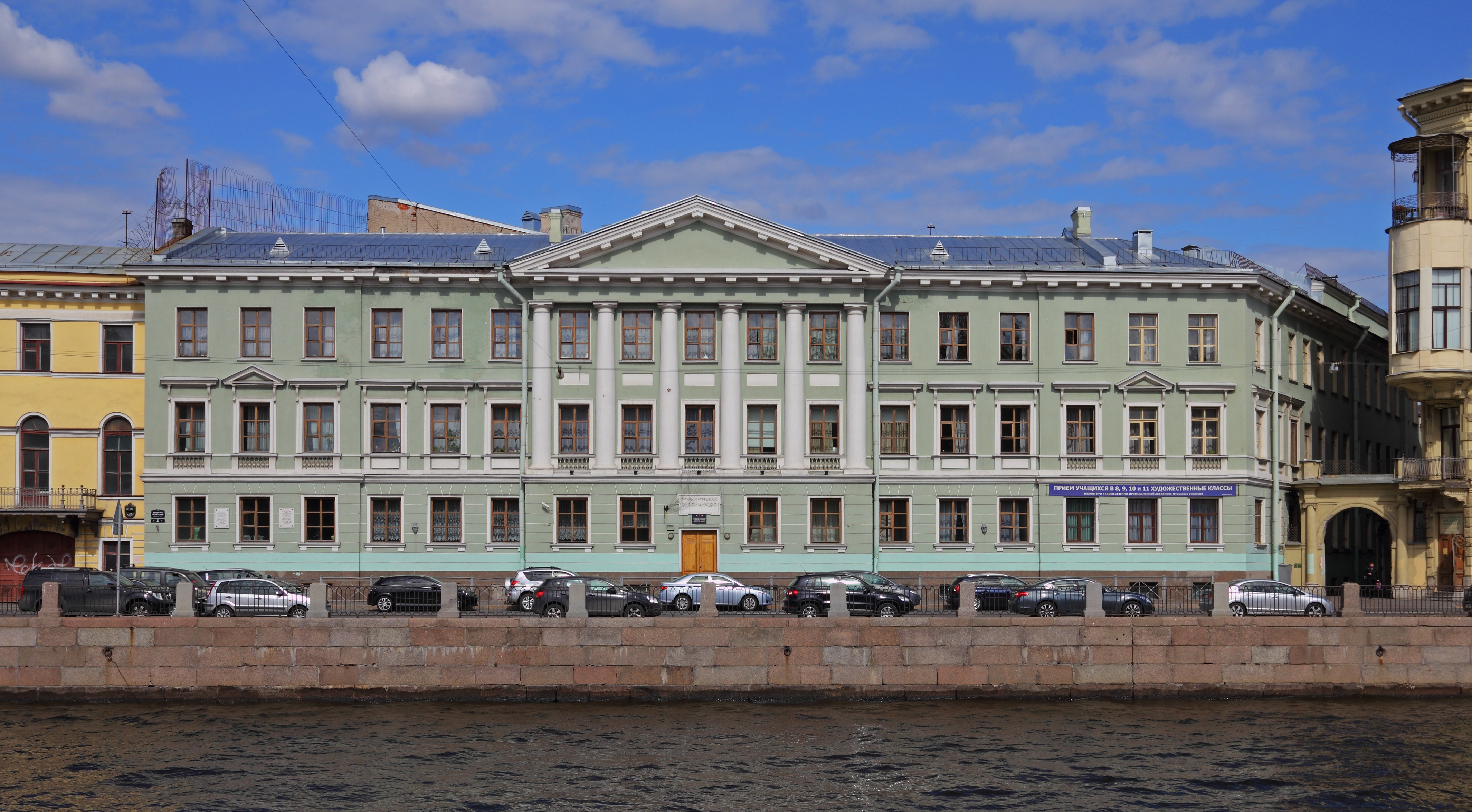 Saint Petersburg, Russia. Fontanka Embankment, house 22.